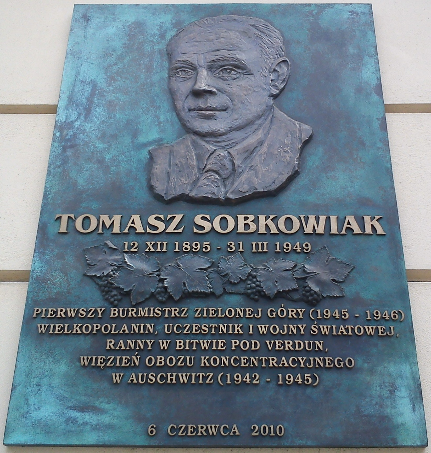 Tomasz Sobkowiak Plaque in Zielona Gora.